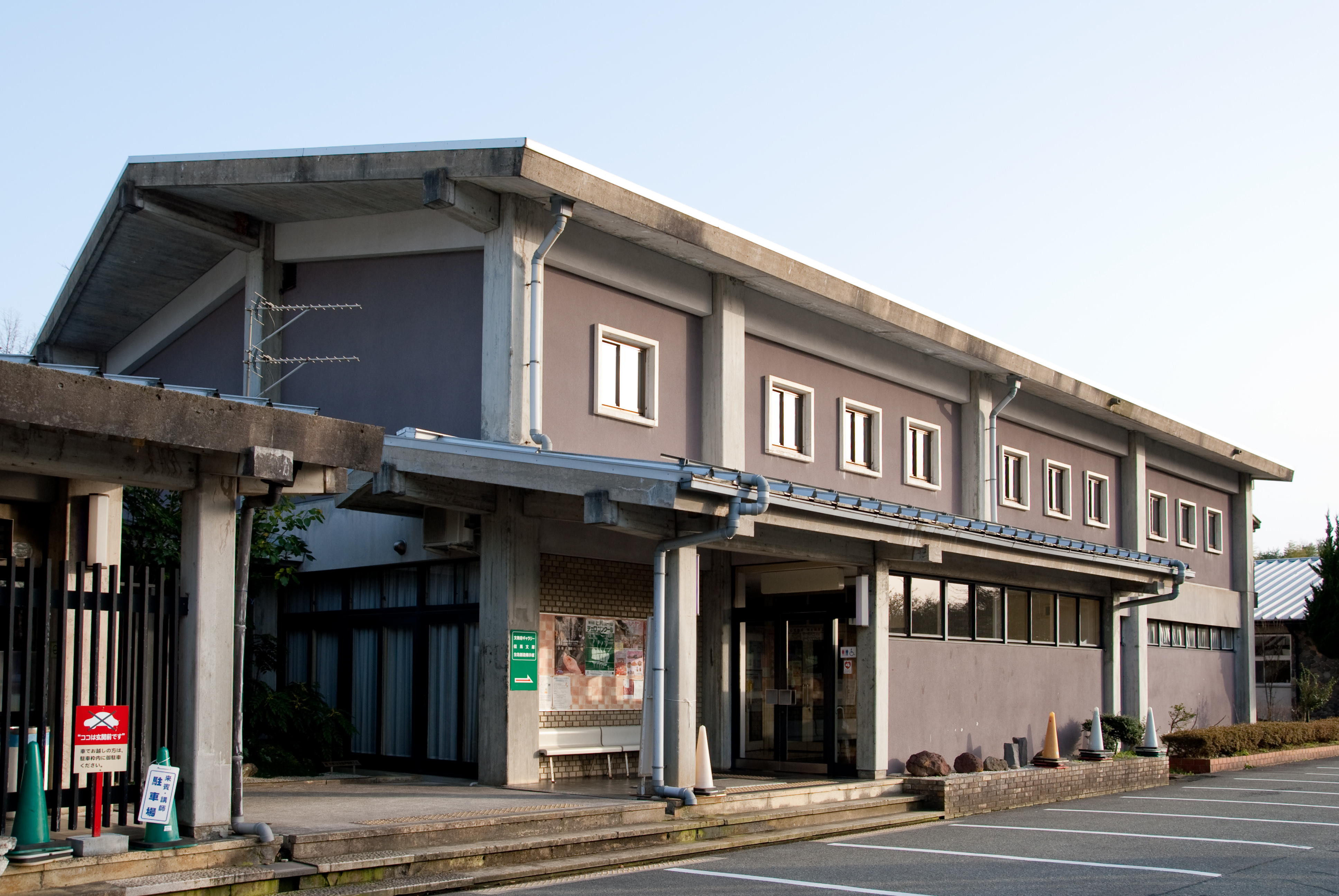 Hyogo prefecture Tajima Bunkyofu.